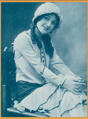 Publicity photo of Bessie Learn from Stars of the Photoplay